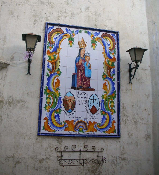 Vallibona. Virgin Mary on the outer church wall.